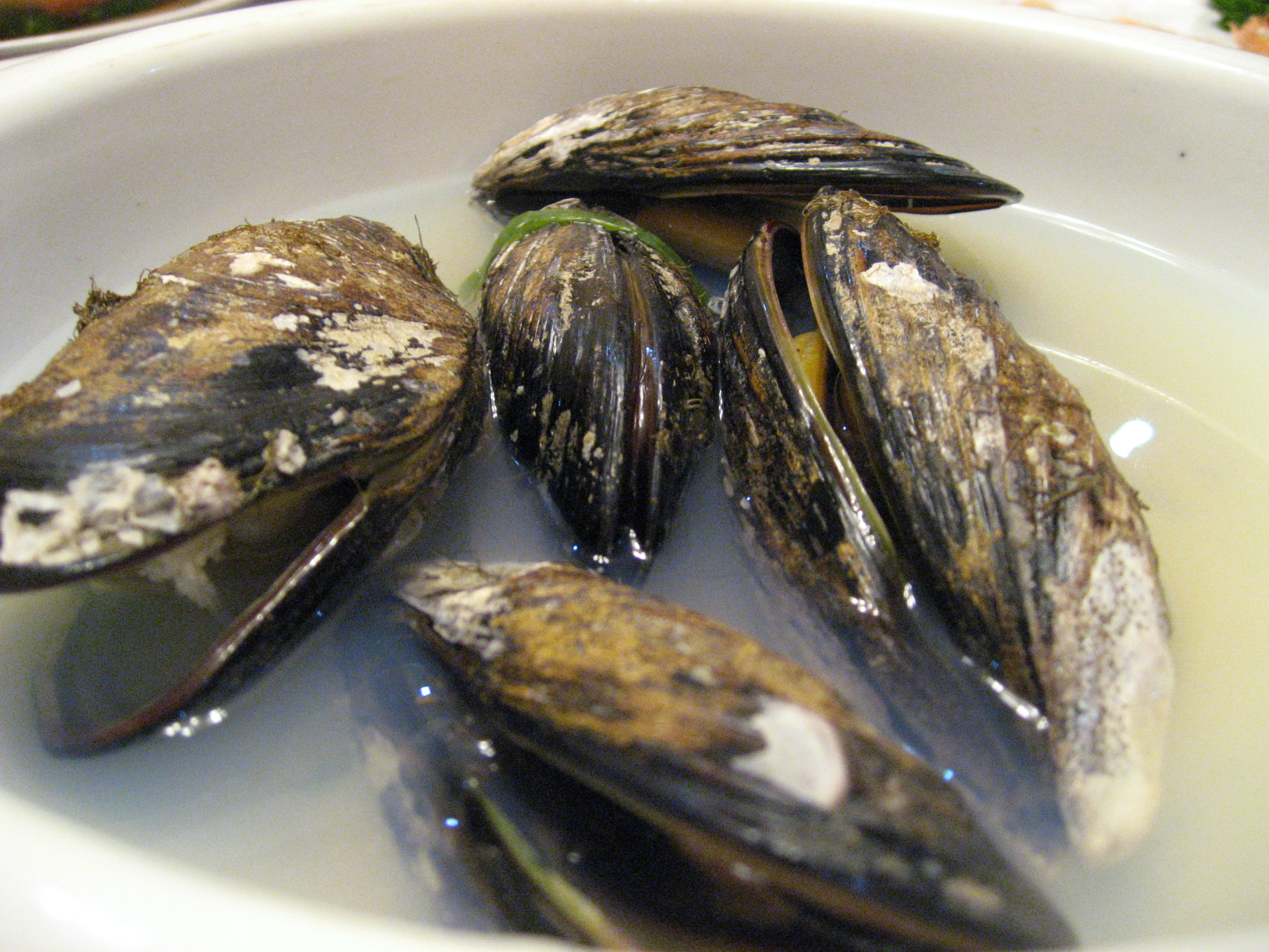 Fuzhou seafood